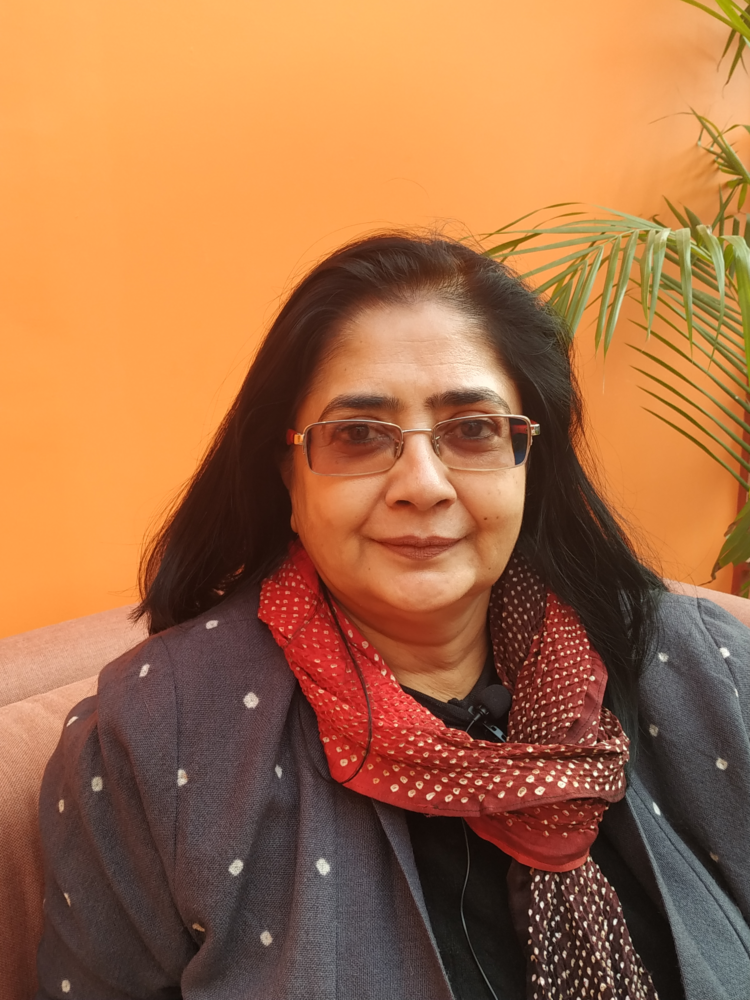 Vasundhara Tewari Broota at India Art Fair